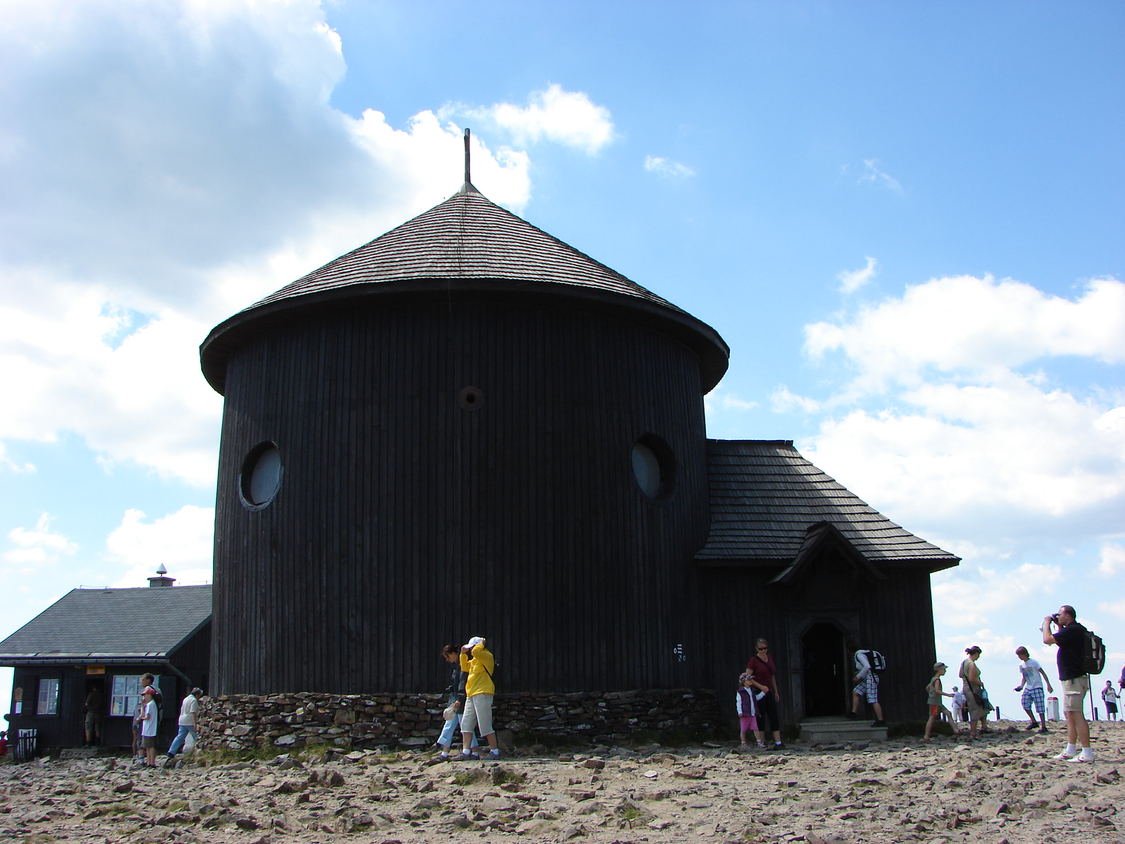 St. Lawrence's chapel on the Śnieżka peak. Built 1655.